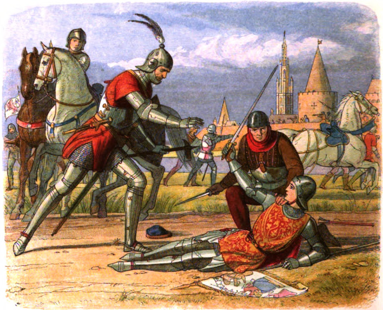 Joan of Arc is captured in Compiègne.